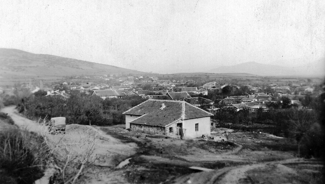 Negorci, photo from 1931 This media file is produced by Wikipedian in Residence in Category:Wikipedian in Residence at DARM in 2016.